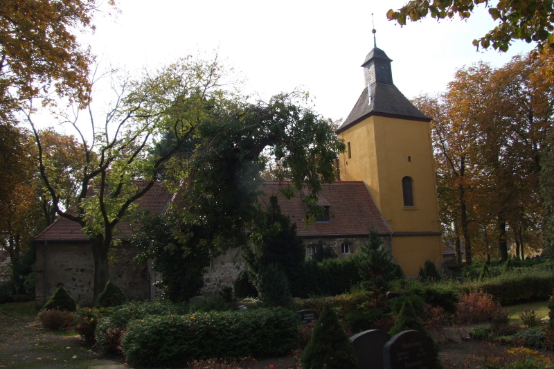 Village Church in Kirchmöser